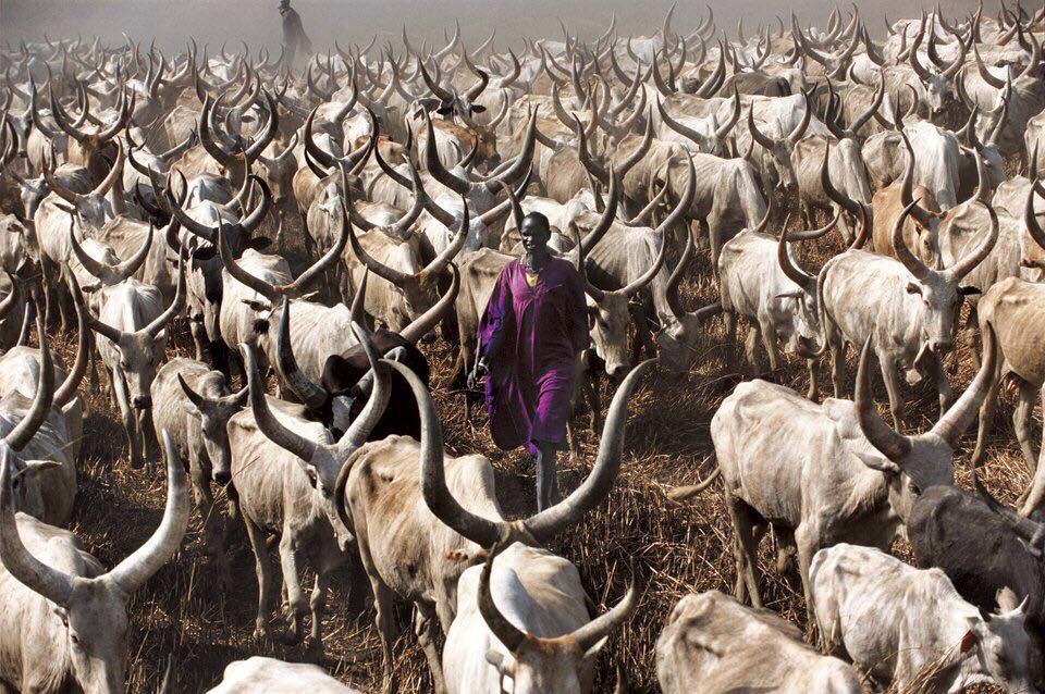 This is an image of "African people at work" from Kenya